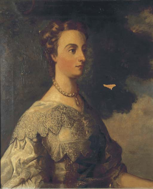 Half-length portrait of Diana Russell, Duchess of Bedford (née Lady Diana Spencer).